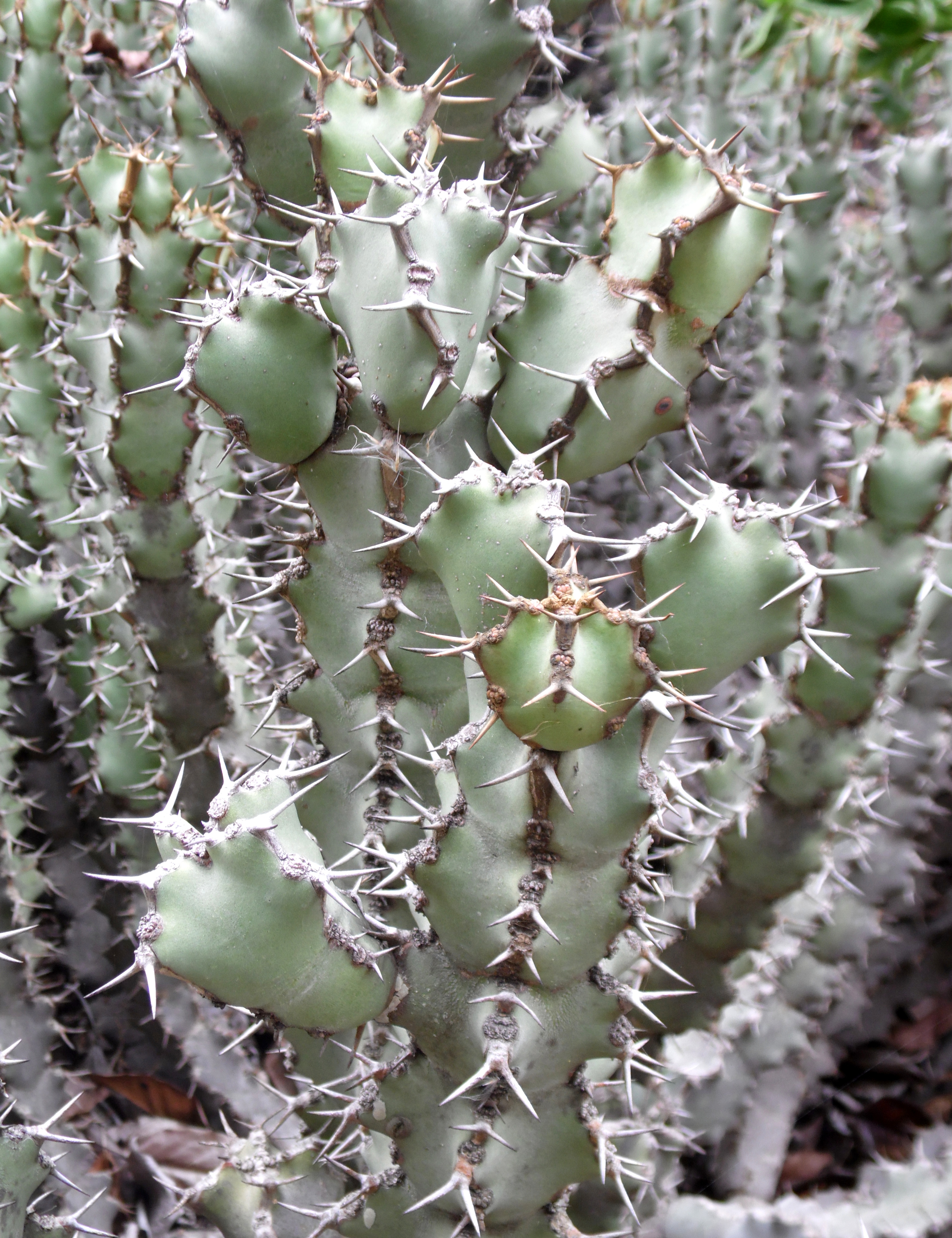 Euphorbia caerulescens in Jardín Botánico Canario Viera y Clavijo